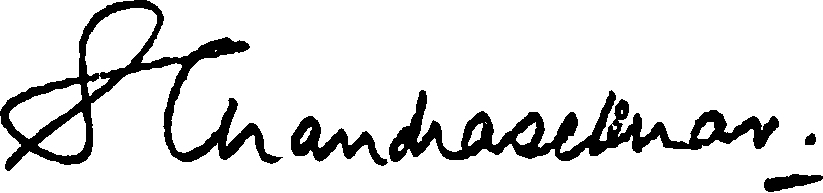 Signature of Subrahmanyan Chandrasekhar.